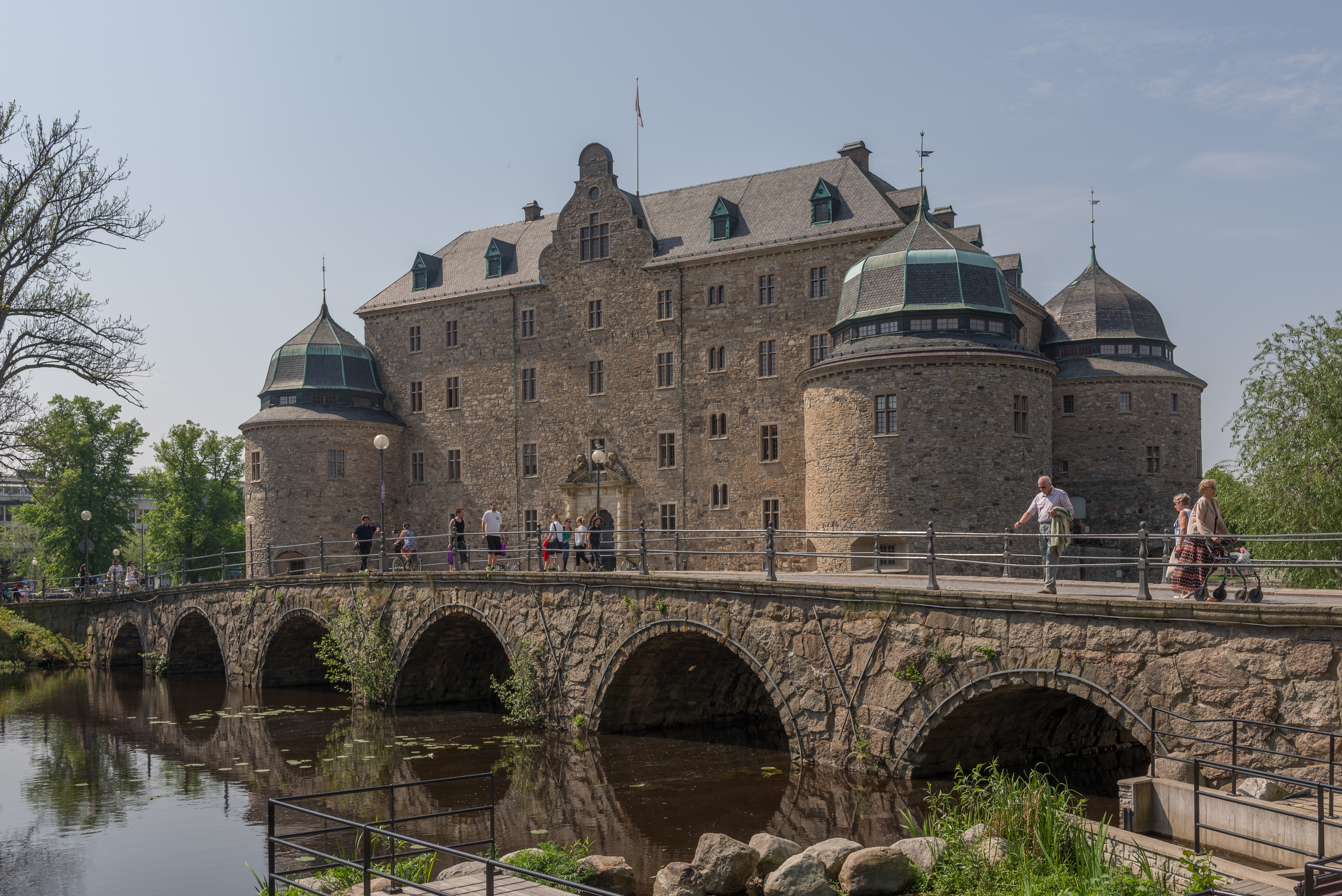 Kanslibron, a historic stone bridge in Örebro, Sweden, In the background, Örebro castle.